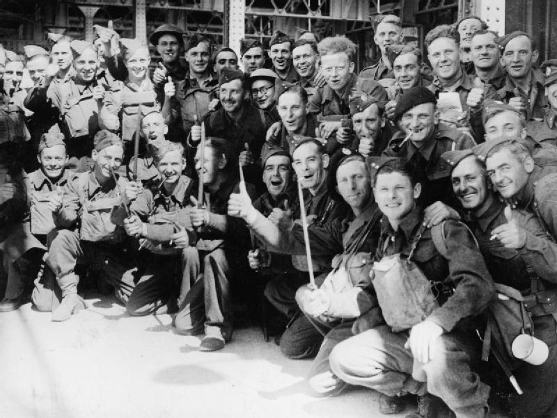 Dunkirk and the Retreat From France 1940 Cheerful British troops evacuated from Dunkirk pose for a photo at a railway station in the UK.